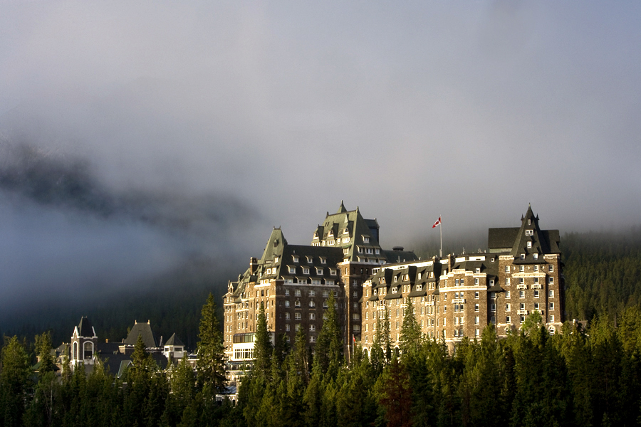 The Banff Springs Hotel is a large, Chateau-style hotel, built between 1911 and 1928. It is picturesquely situated at the foot of Sulphur Mountain in the town of Banff, within Banff National Park. The formal recognition consists of the building on its legal property at the time of recognition.